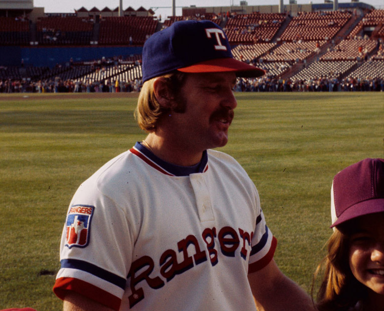 May 1977 photograph of Texas Rangers infielder Toby Harrah, taken at Arlington Stadium prior to a game against the Toronto Blue Jays. This image has been cropped slightly from the original.